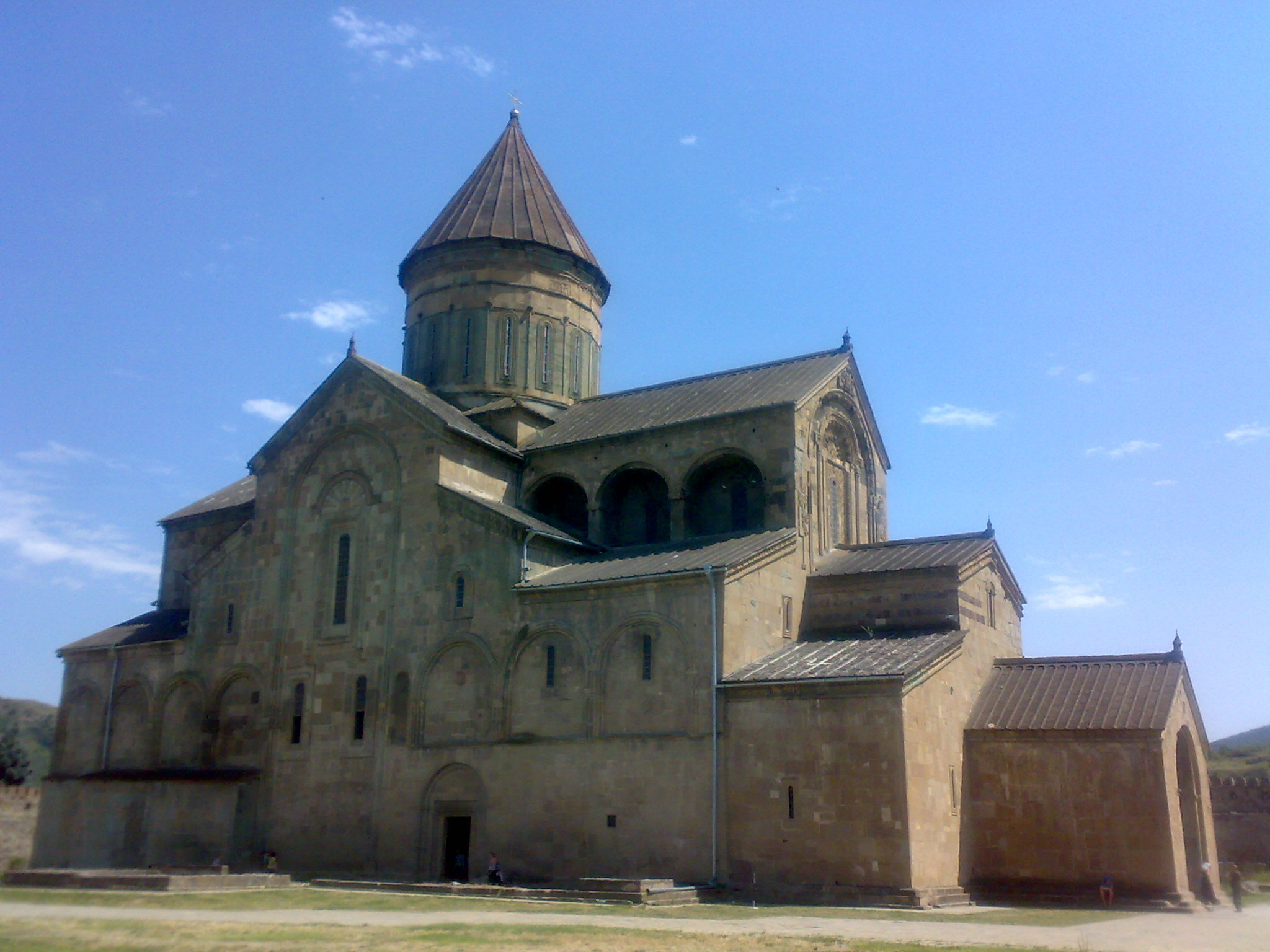 Svetitskhoveli Cathedral